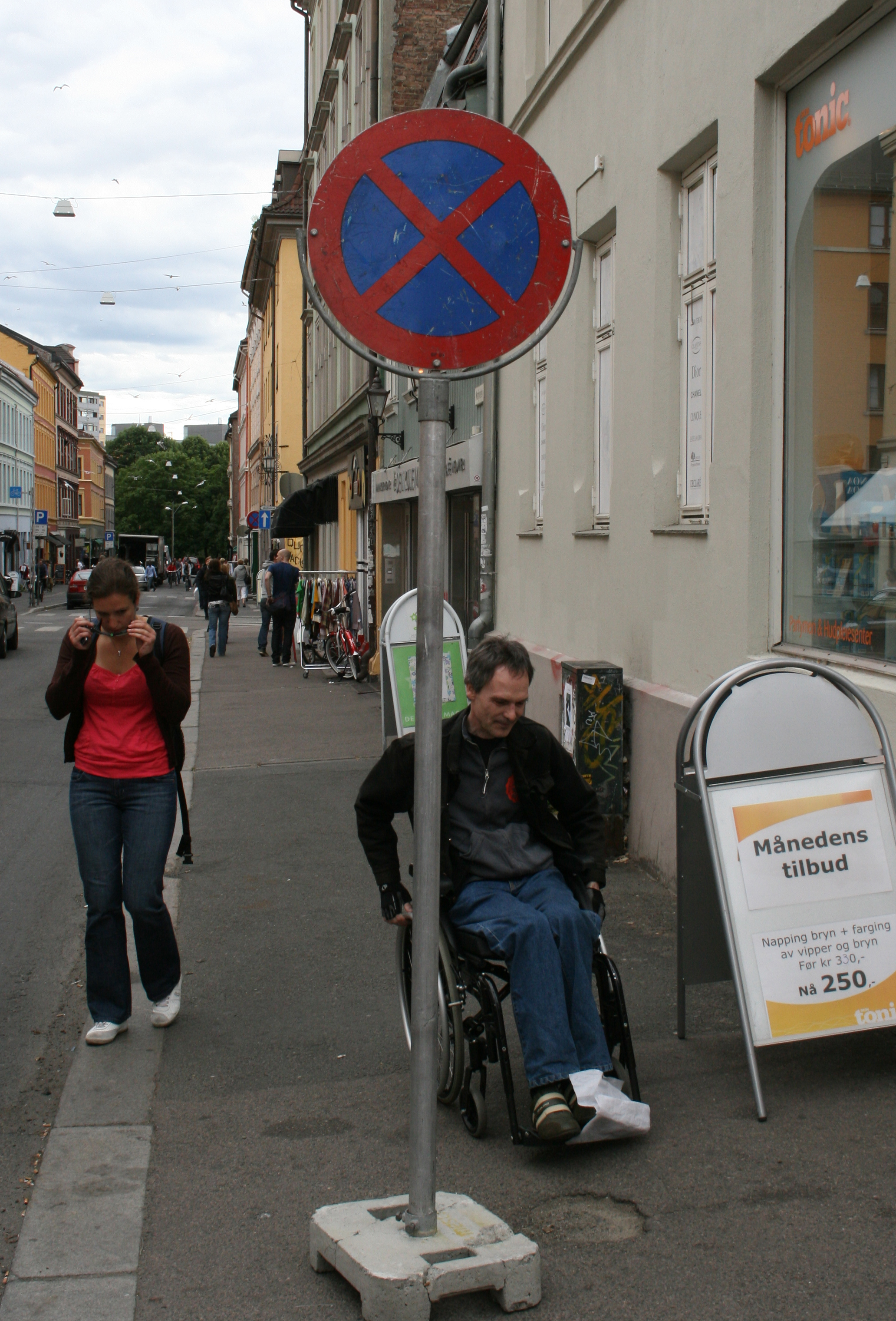 How to make a public area not universally accessible